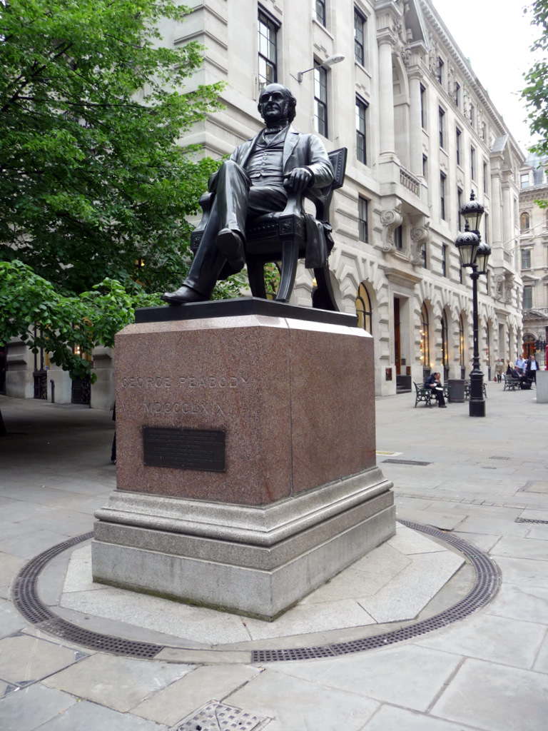 Statue of George Peabody, London EC3 This statue is in Threadneedle Street behind the Royal Exchange.